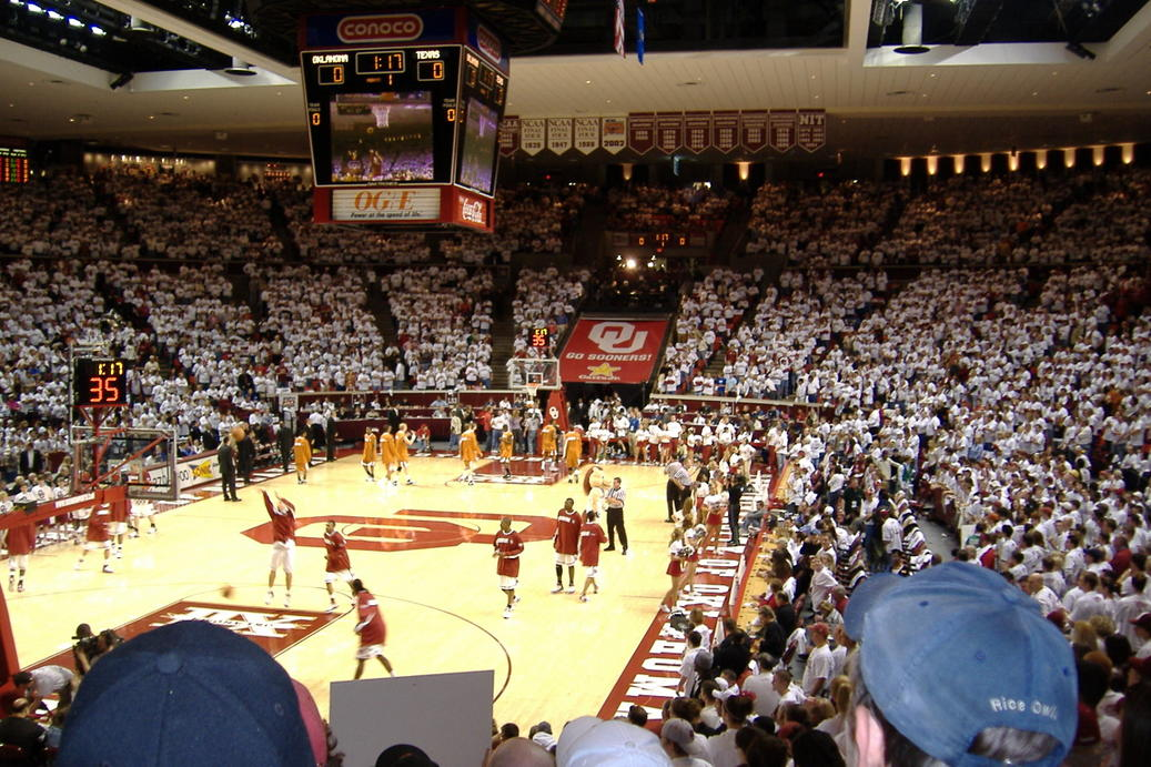 A view of the inside of Lloyd Noble Center during a game in Norman, OK.